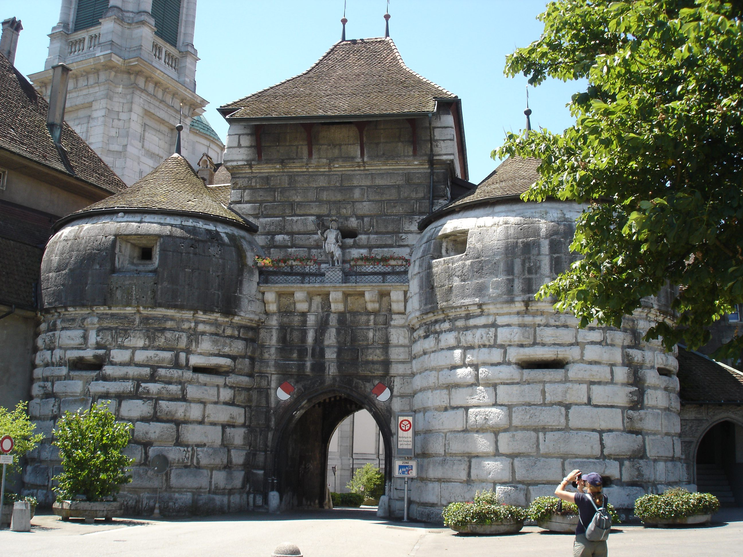 Baseltor Solothurn